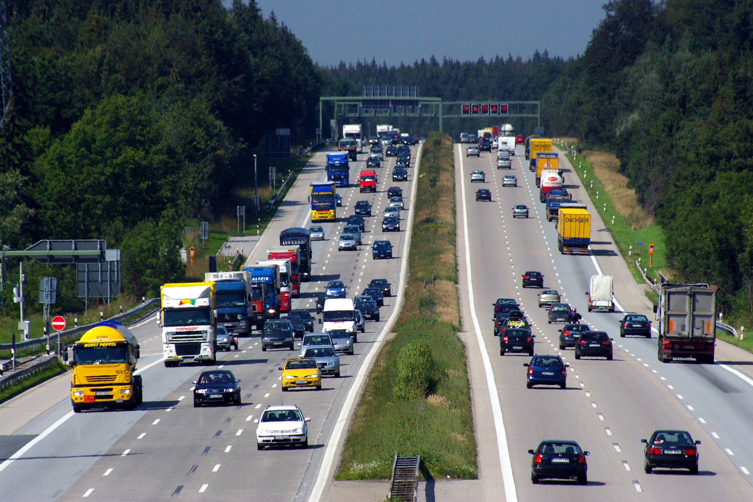 Autobahn A8 at Holzkirchen